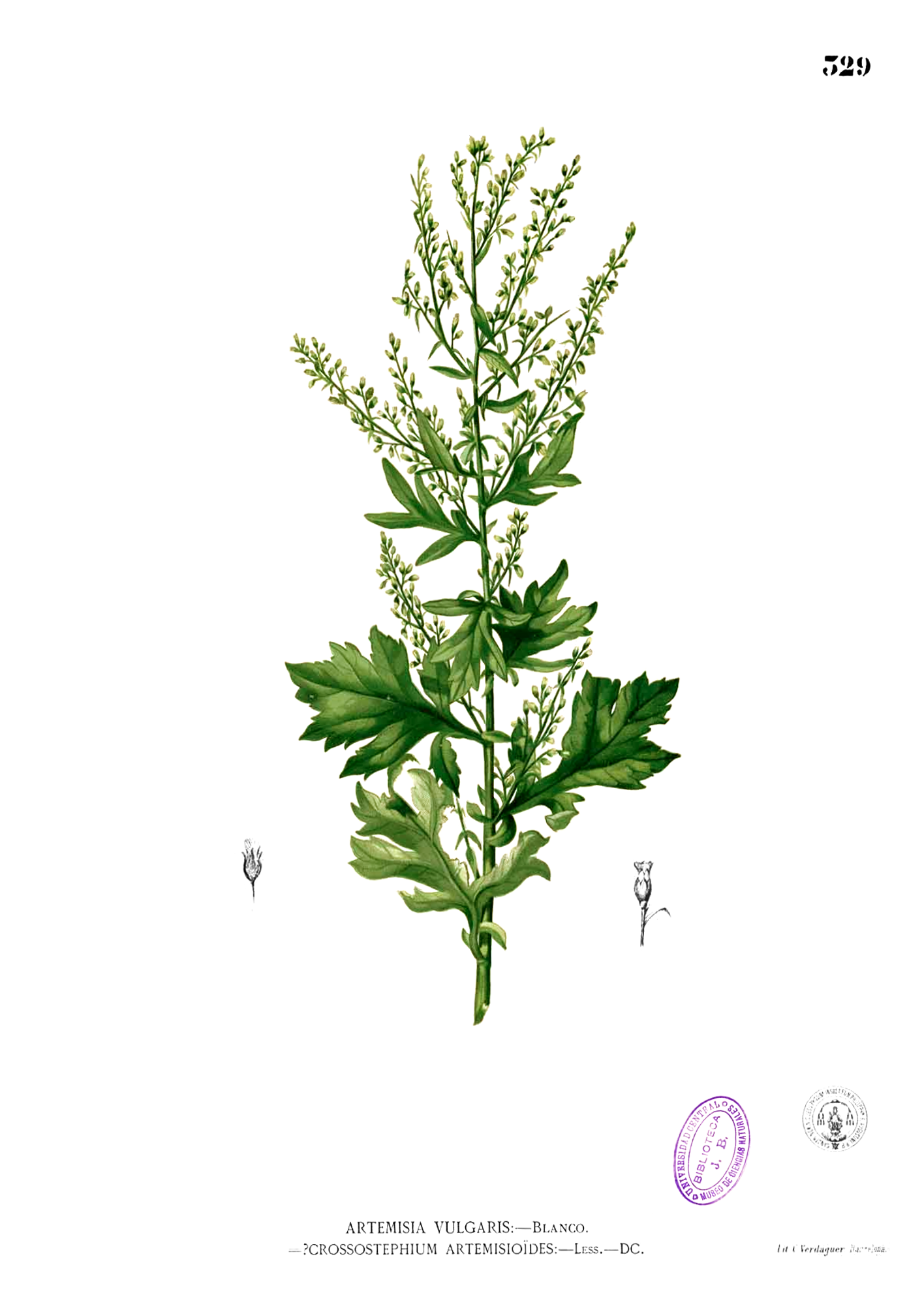 Plate from book